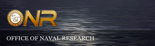 New banner of the Office of Naval Research (ONR) including the seal.